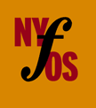 NYFOS logo